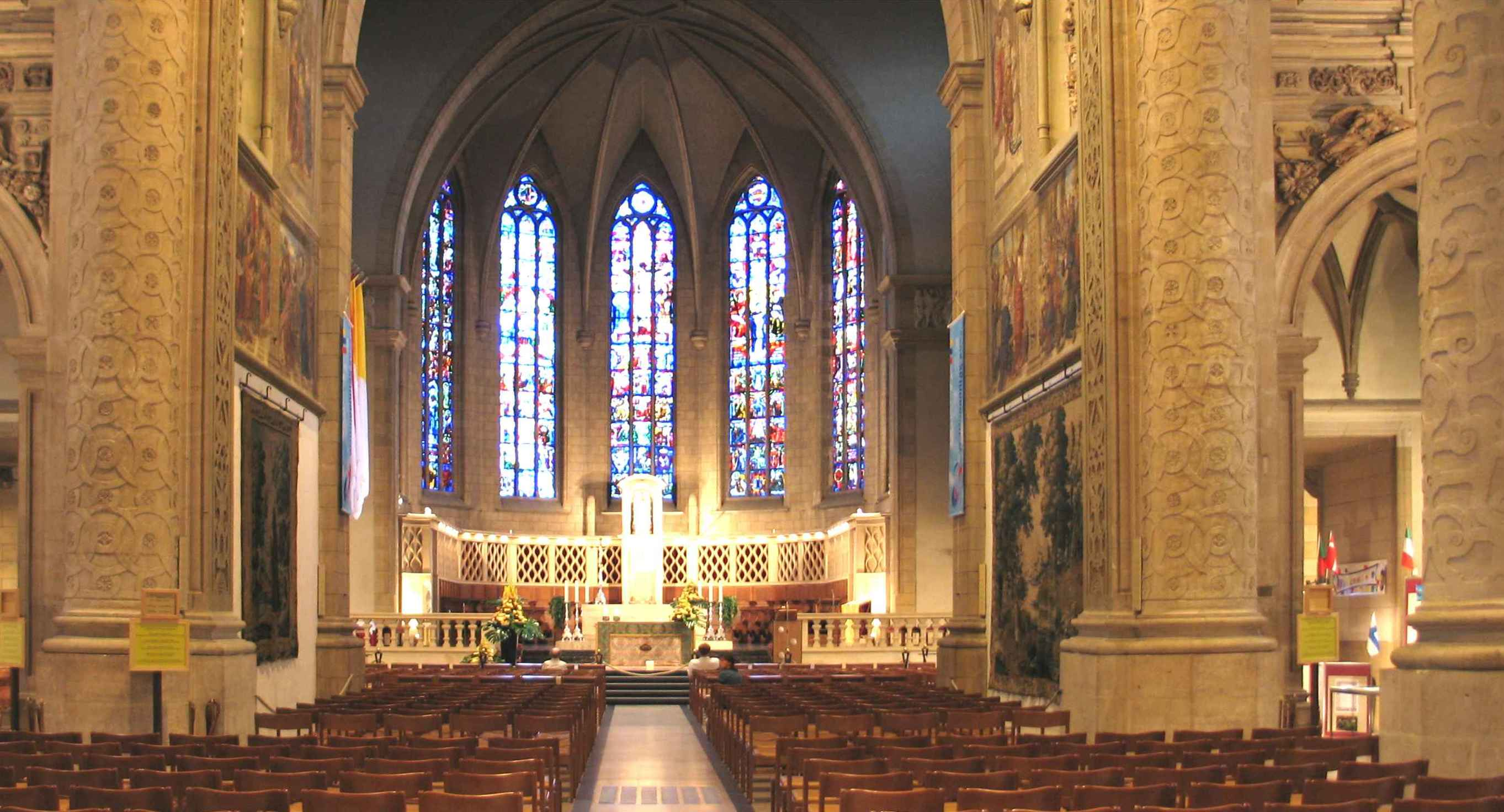 Quire of Luxembourg Cathedral